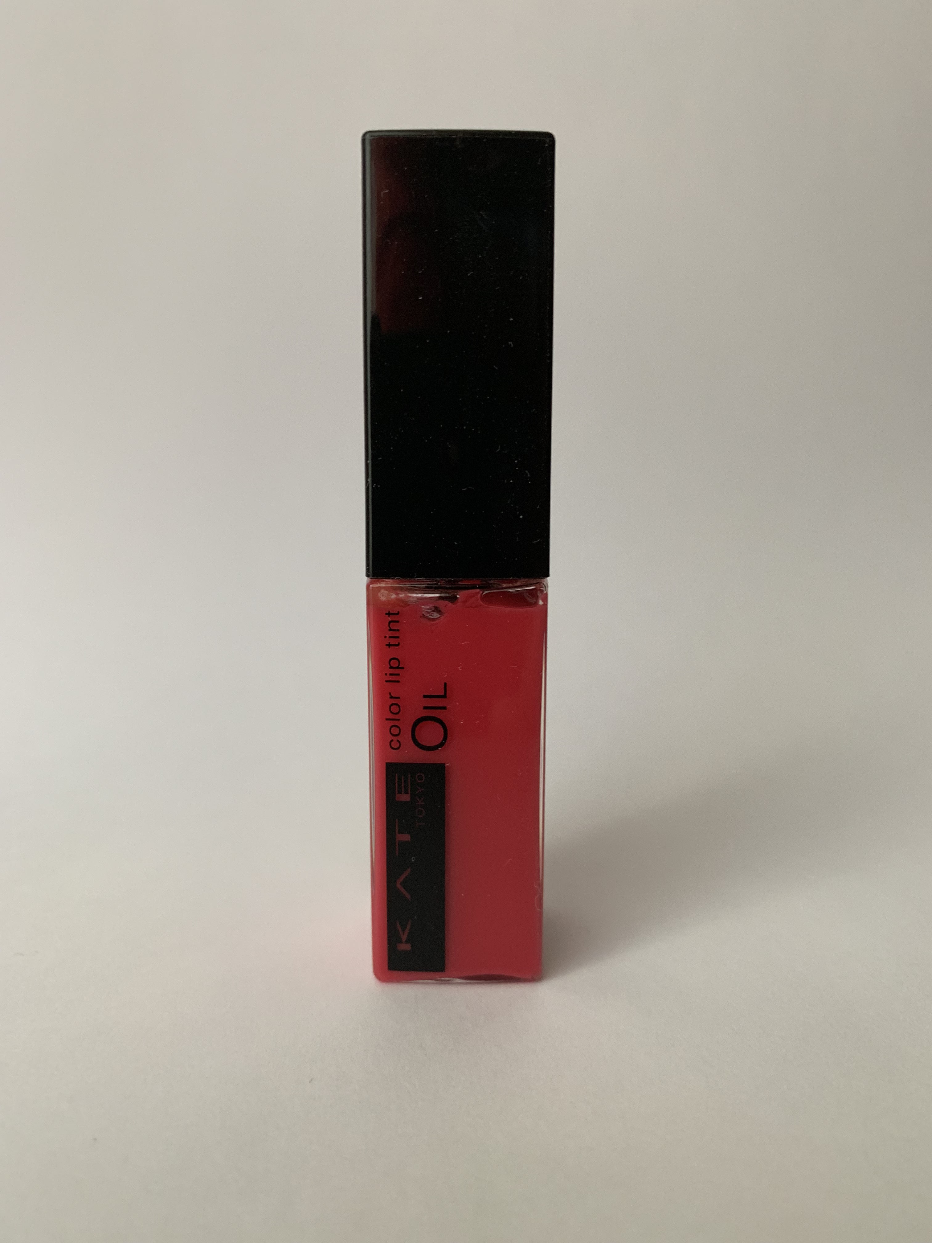 Liquid Lip Tint